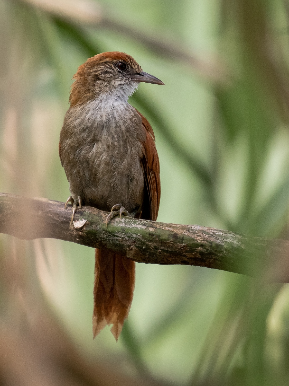 Parker's spinetail; Marchantaria island, Iranduba, Amazonas, Brazil